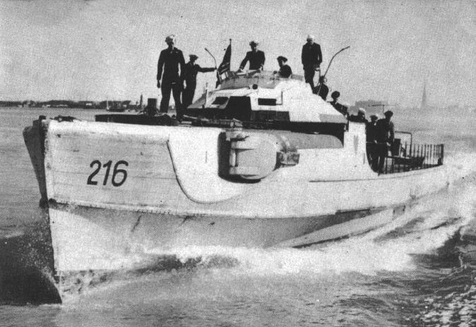 A U.S. Navy patrol boat on the Weser River in Germany. The boat is the former German E-boat (German: Schnellboot, or S-Boot, meaning "fast boat") S 216. S 216 was commssioned on 27 December 1944 and later used by the U.S. Navy until it was transferred to Denmark in July 1947. It served as Havoernen and was scrapped in 1958.